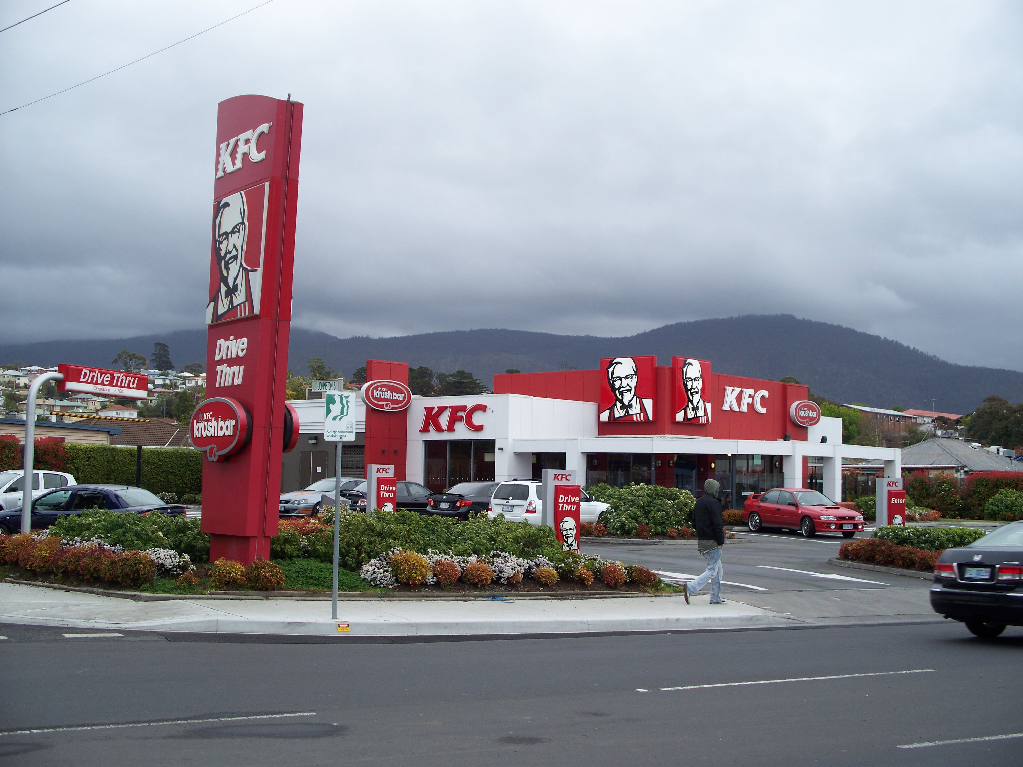 A KFC outlet in Derwent Park, a northern suburb of Hobart, Australia. Other information This picture was taken using a 12MP Kodak EasyShare Z1275 camera.